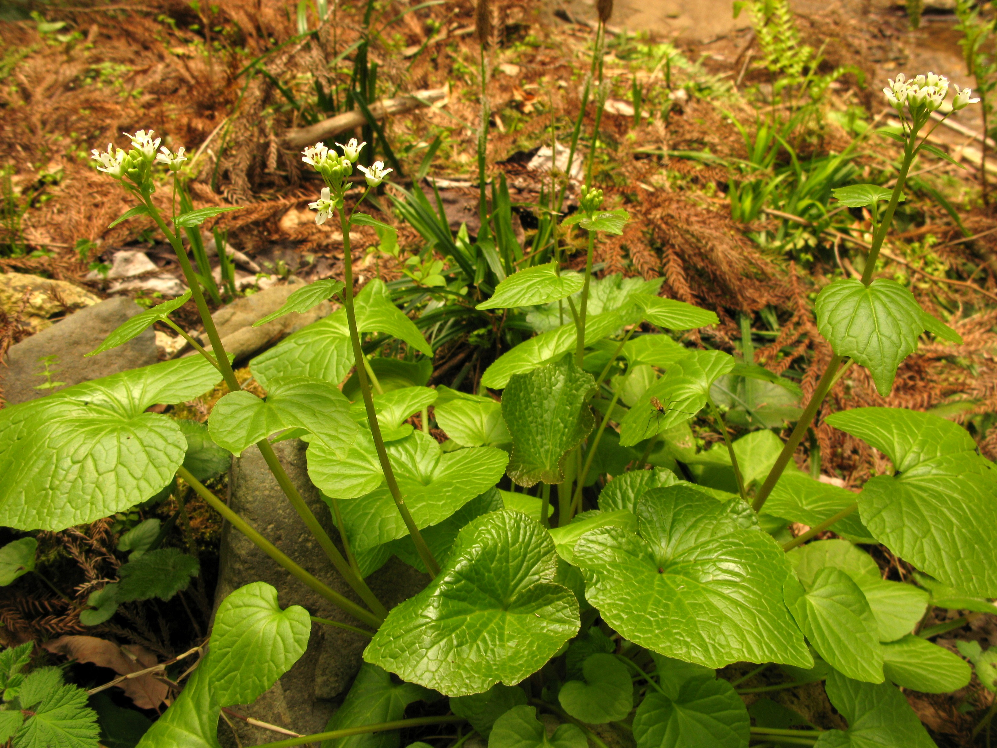 Wasabia japonica, Aizu area, Fukushima pref., Japan